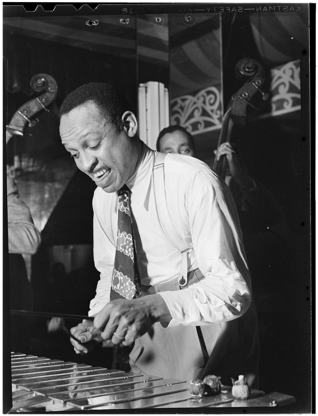 Lionel Hampton, Aquarium, New York